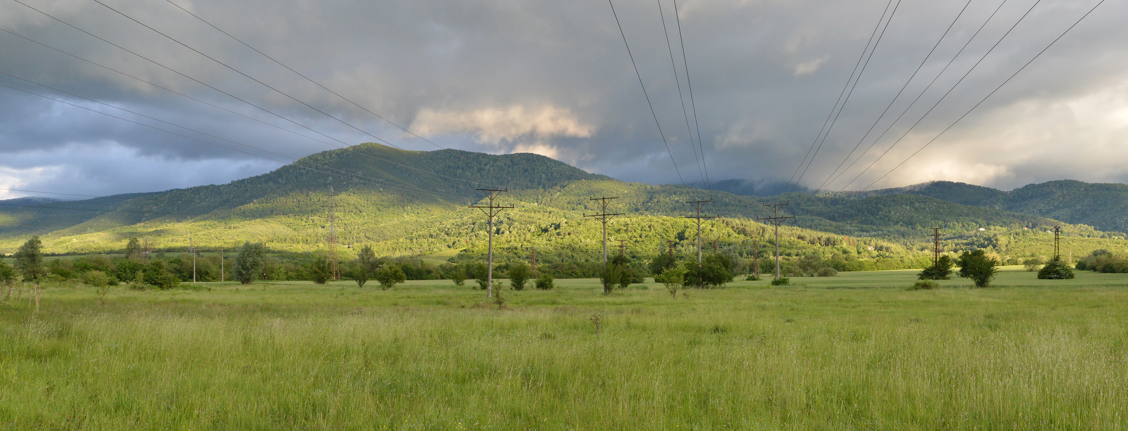 The ridge Vetriloto of Bilo Mountain, part of the Balkan Mountains.